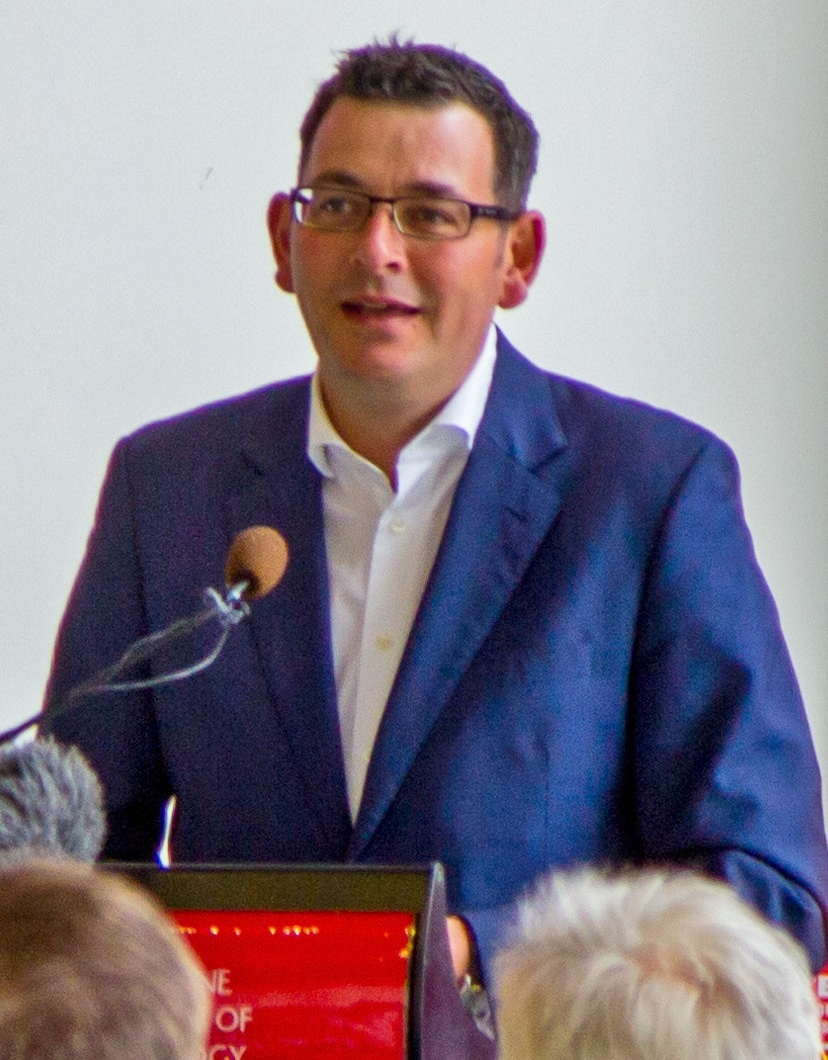 Original caption: "Asia Pacific’s largest digital games event, Melbourne International Games Week (MIGW), was today launched at Swinburne University of Technology’s Hawthorn campus."